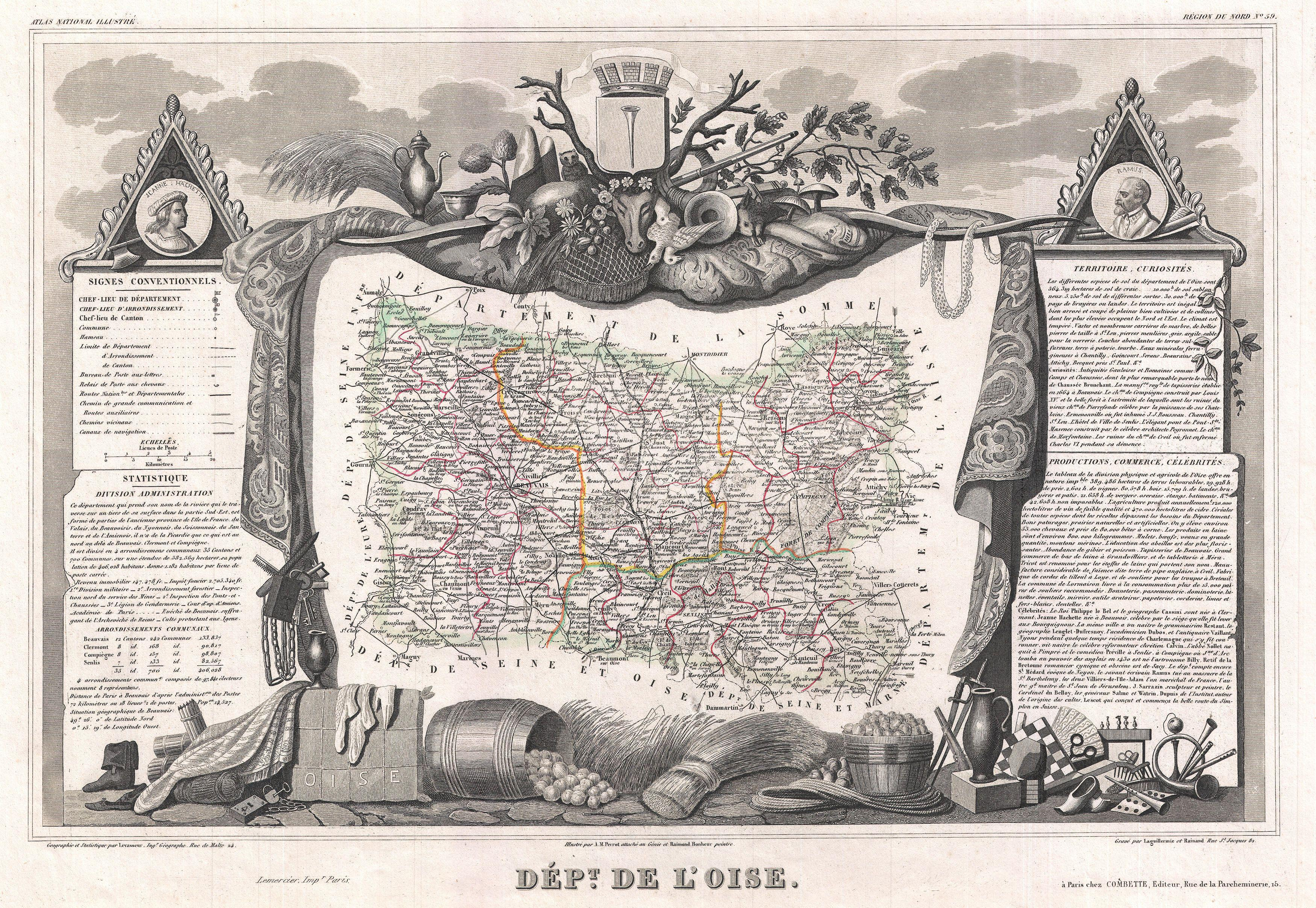 This is a fascinating 1852 map of the French department of Oise, France. The map proper is surrounded by elaborate decorative engravings designed to illustrate both the natural beauty and trade richness of the land. There is a short textual history of the regions depicted on both the left and right sides of the map. Published by V. Levasseur in the 1852 edition of his Atlas National de la France Illustree.